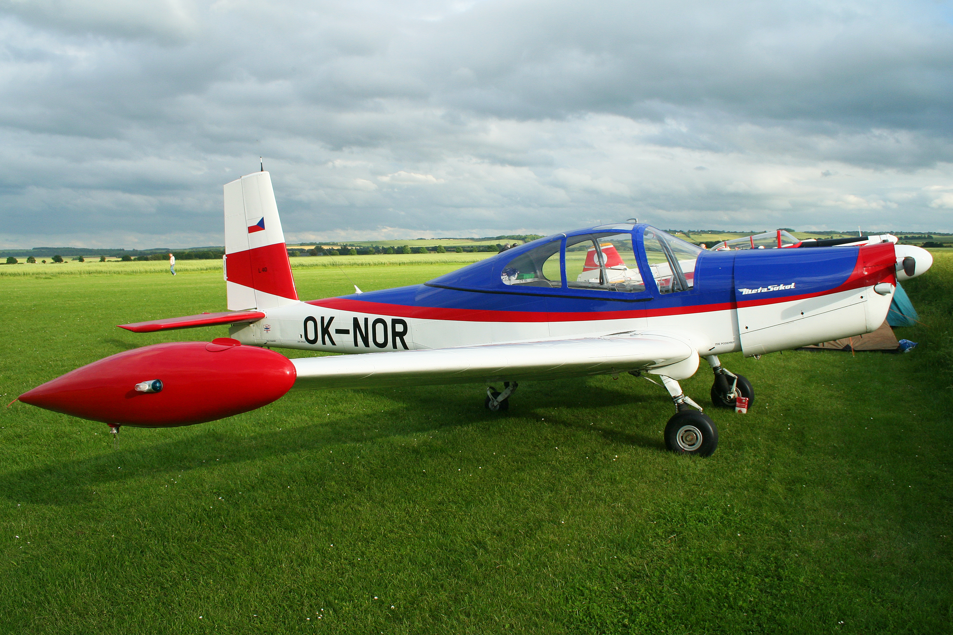 Built 1961, msn 150905. One of many light aircraft 'camping' at Fowlmere on the night before Duxford's Flying Legends airshow. 29-06-2012